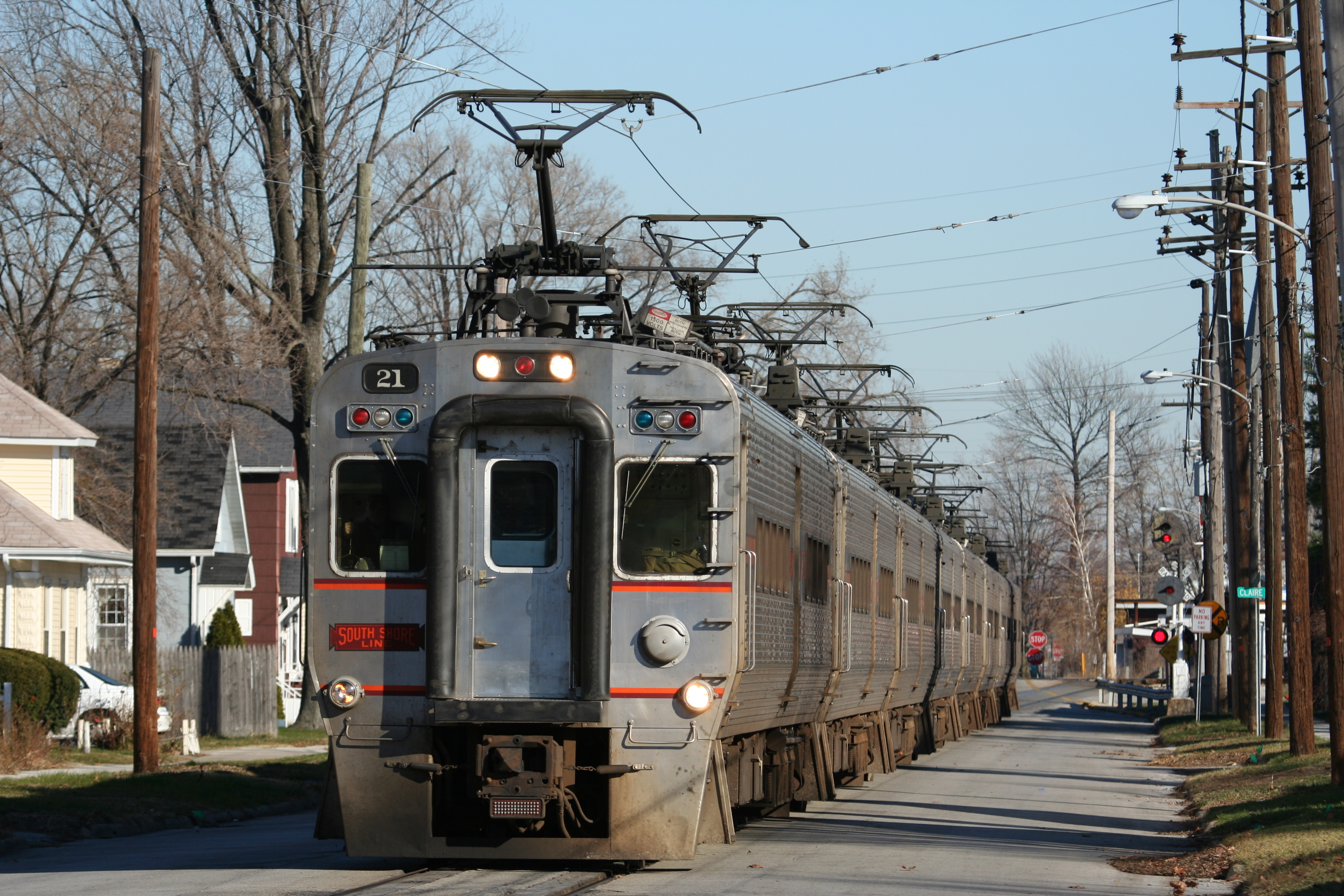 South Shore train passes through the middle of the city streets of Michigan City, IN.